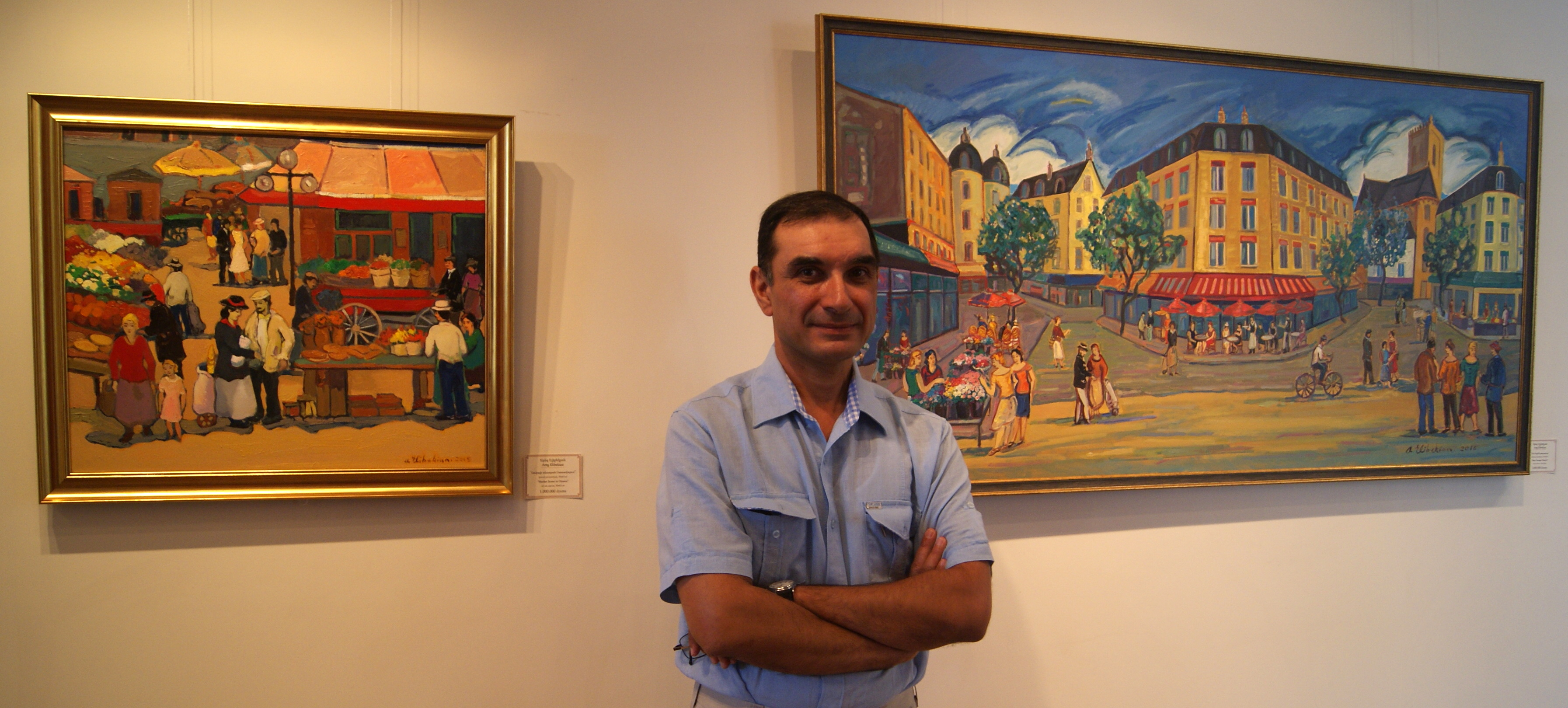 Areg Elibekyan in Arame Art Gallery during his solo exhibition, 2016, Yerevan